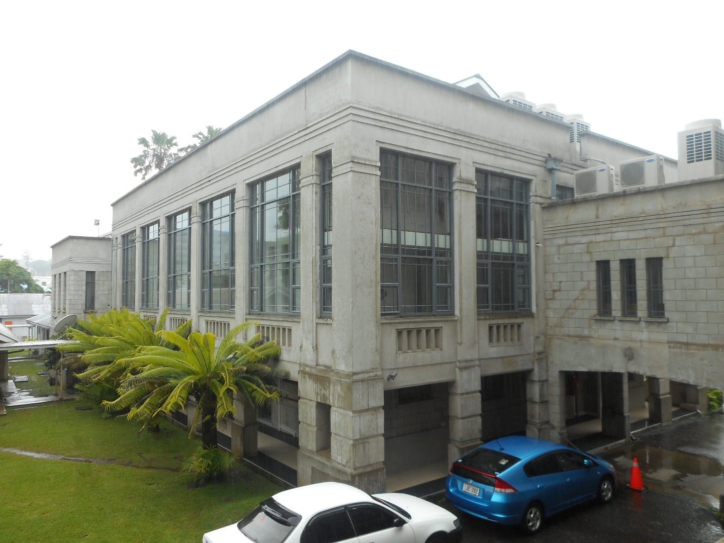 The Fiji Parliament chamber building that is part of the Government Buildings Complex on Constitution Avenue, Suva, Fiji.